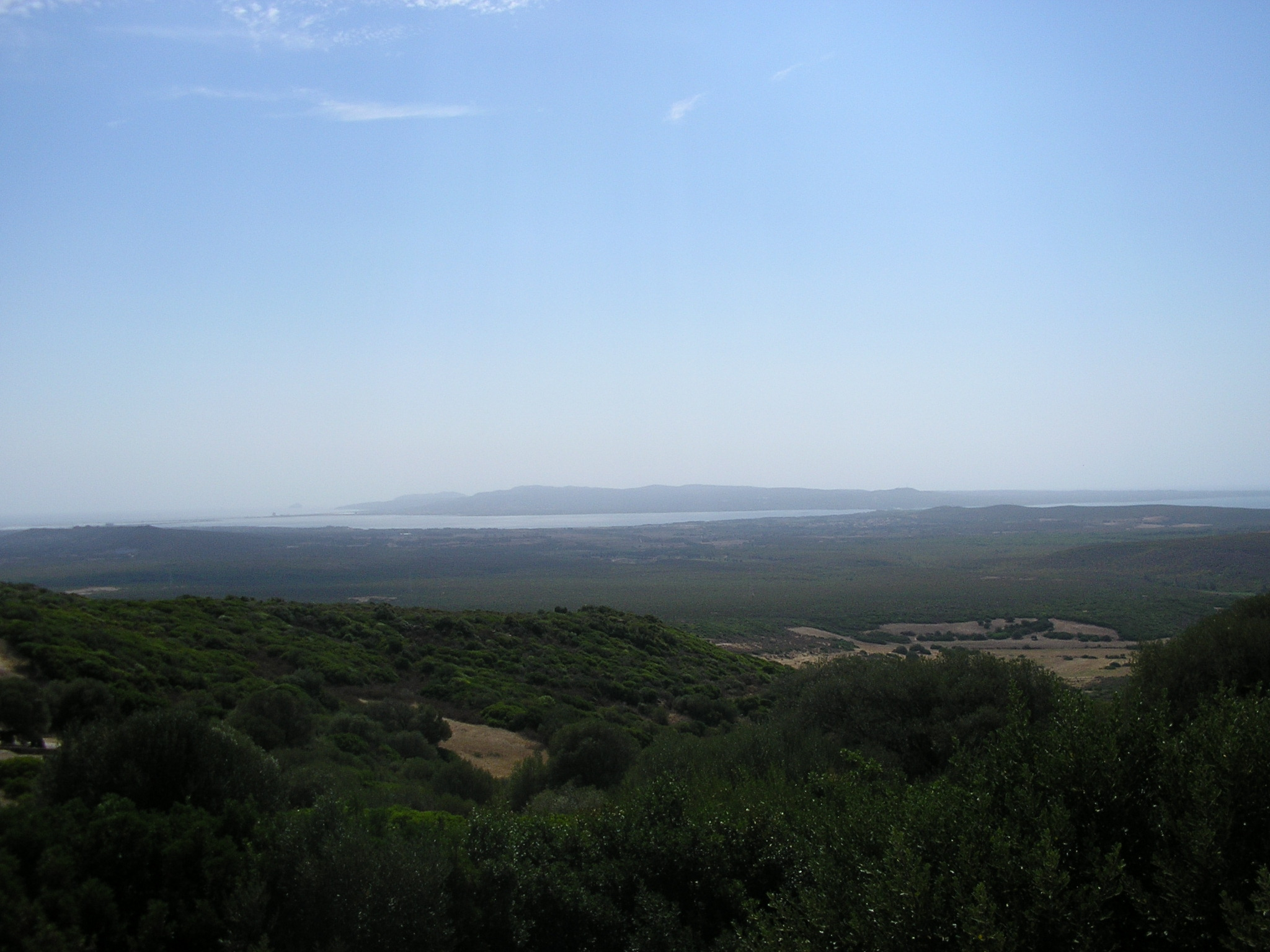 Sant'Antioco island seen from monte Sirai, in the surroundings of Carbonia, Sardinia, Italy